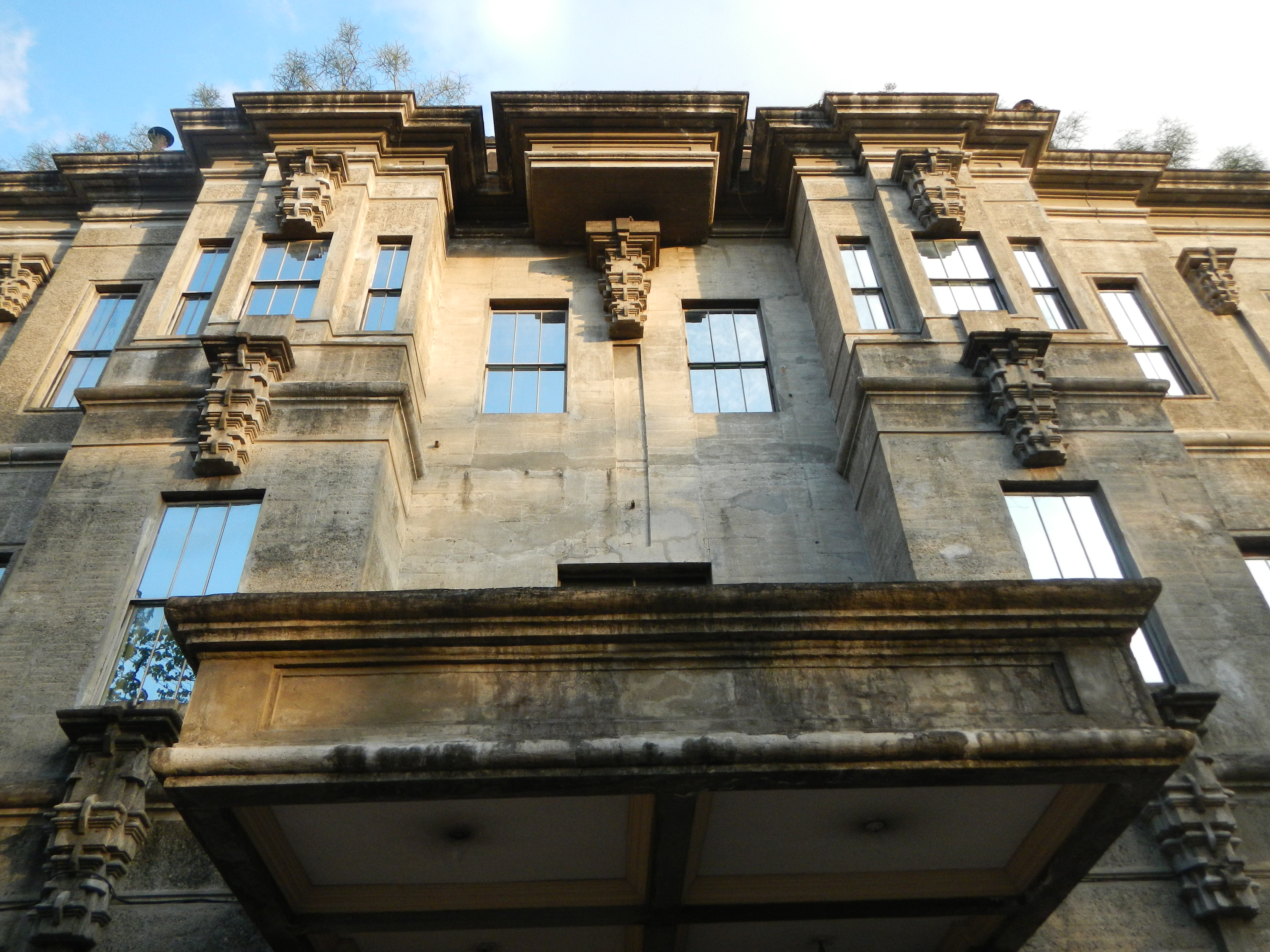 University of Santo Tomas Faculty of Civil Law[1]The University of Santo Tomas Faculty of Civil Law or "UST Law" (as distinguished from the Faculty of Canon Law), is the law school of the University of Santo Tomas, the oldest and the largest Catholic university in Manila, Philippines. Established in 1734, it is the first law school in the Philippines. University of Santo Tomas[2]The Pontifical and Royal University of Santo Tomas, The Catholic University of the Philippines (UST, Filipino: Unibersidad ng Santo Tomas